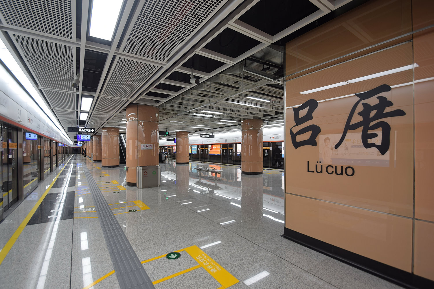 Line 1 Platform of Lücuo Station, Xiamen Metro